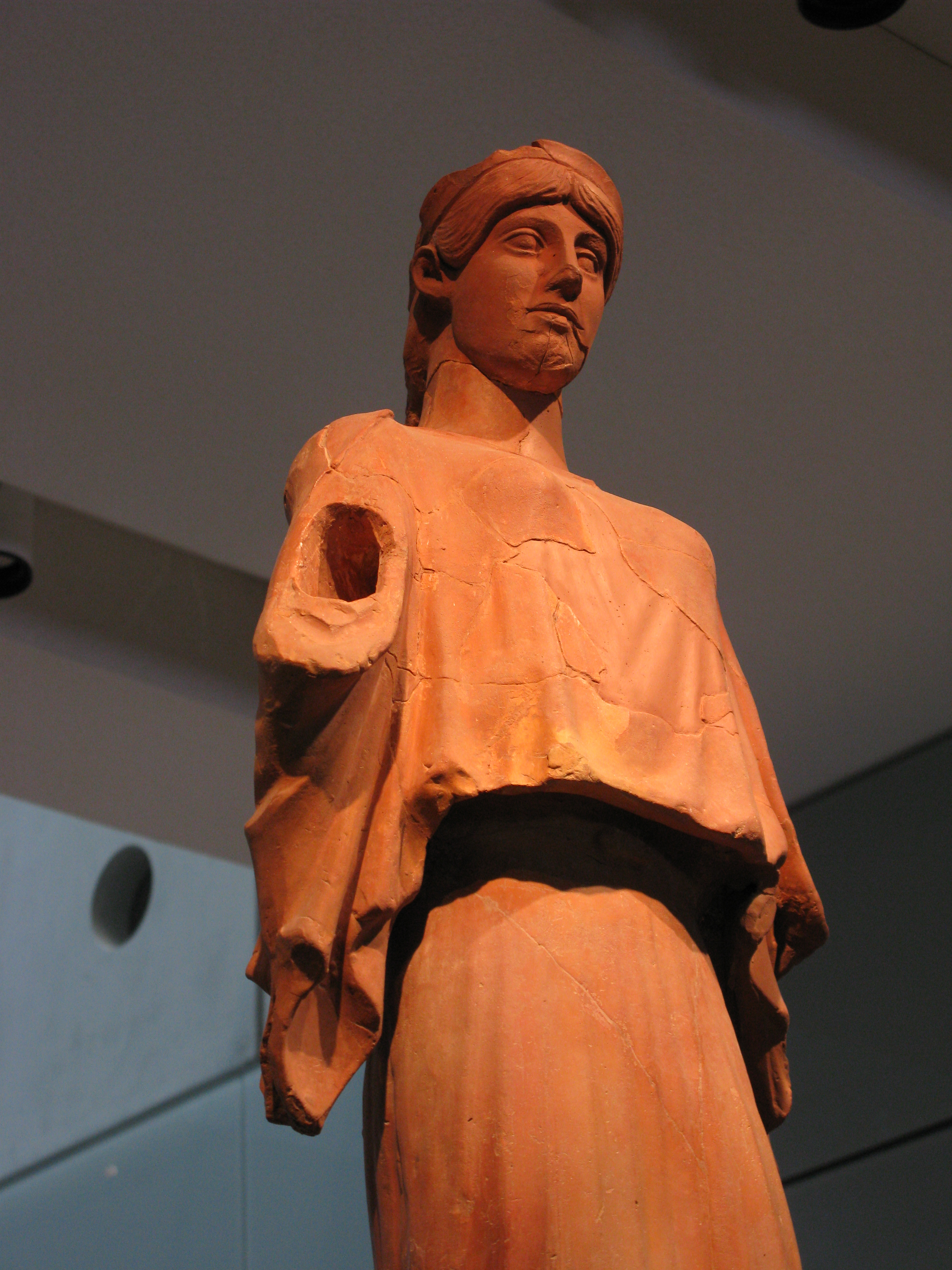 Nike (Acr. 6476, 6476a) 1st - 3rd cent. AD. Terracotta statue, perhaps architectural ornaments mounted at the apex of the pediment of an edifice on the southern slope of the Acropolis (acroteria).